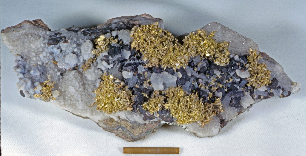 Gold and sphalerite on quartz. Specimen is from the Karabacek collection at Harvard University. #93004 (1972). Scale at bottom of image is an inch with a rule at one cm. Locality: Sacarîmb (Sãcãrâmb; Szekerembe; Nagyág), Hunedoara Co., Romania